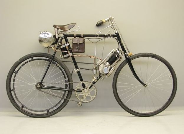 Clement 1902 143 cc with coil ignition and automatic inlet valve